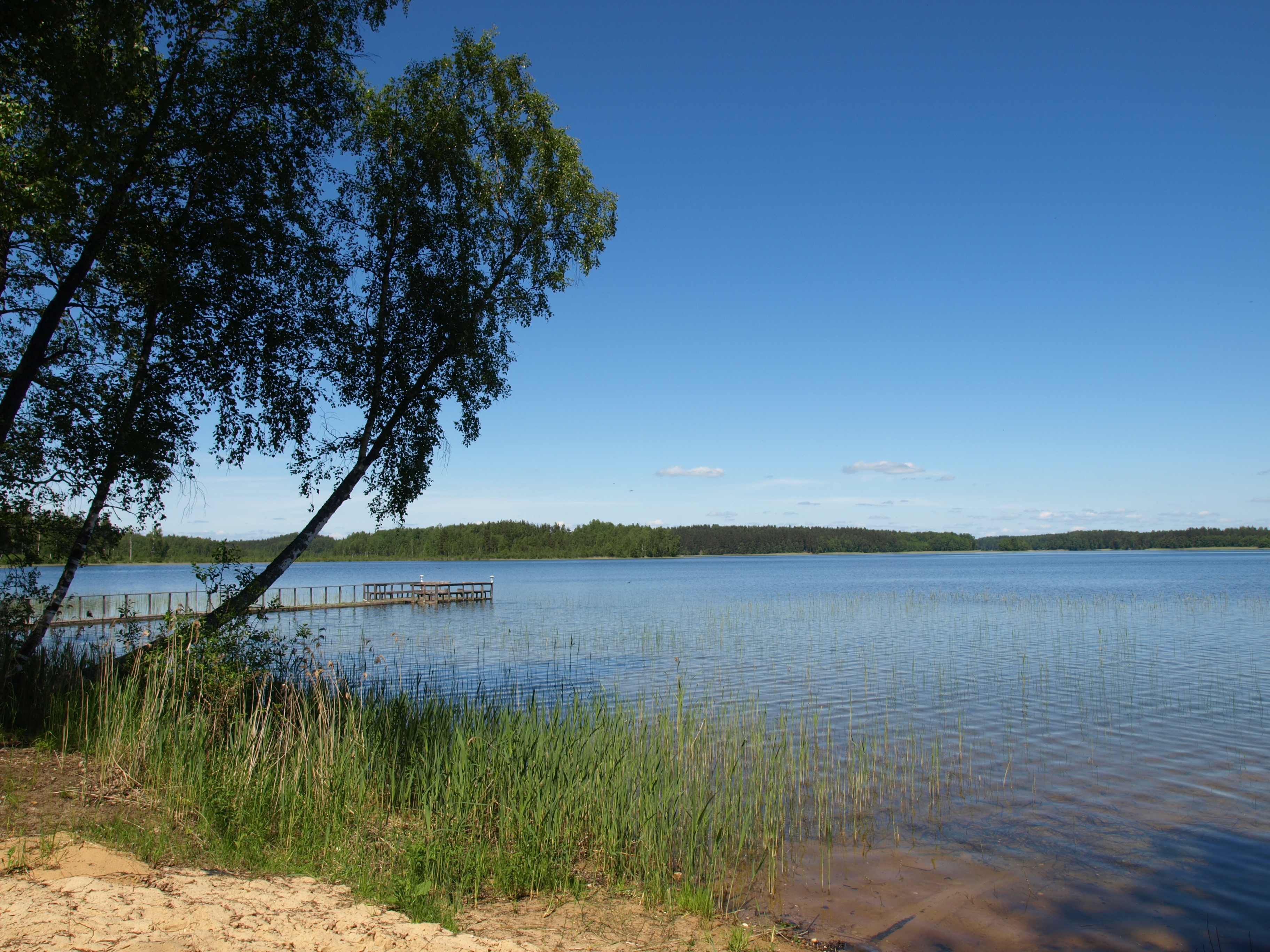 Smalvas lake, Zarasai district, Lithuania